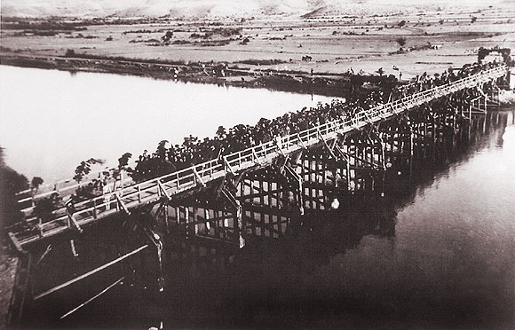 Original wooden bridge across the Kızılırmak River on the road between İskilip and Çorum, 1930